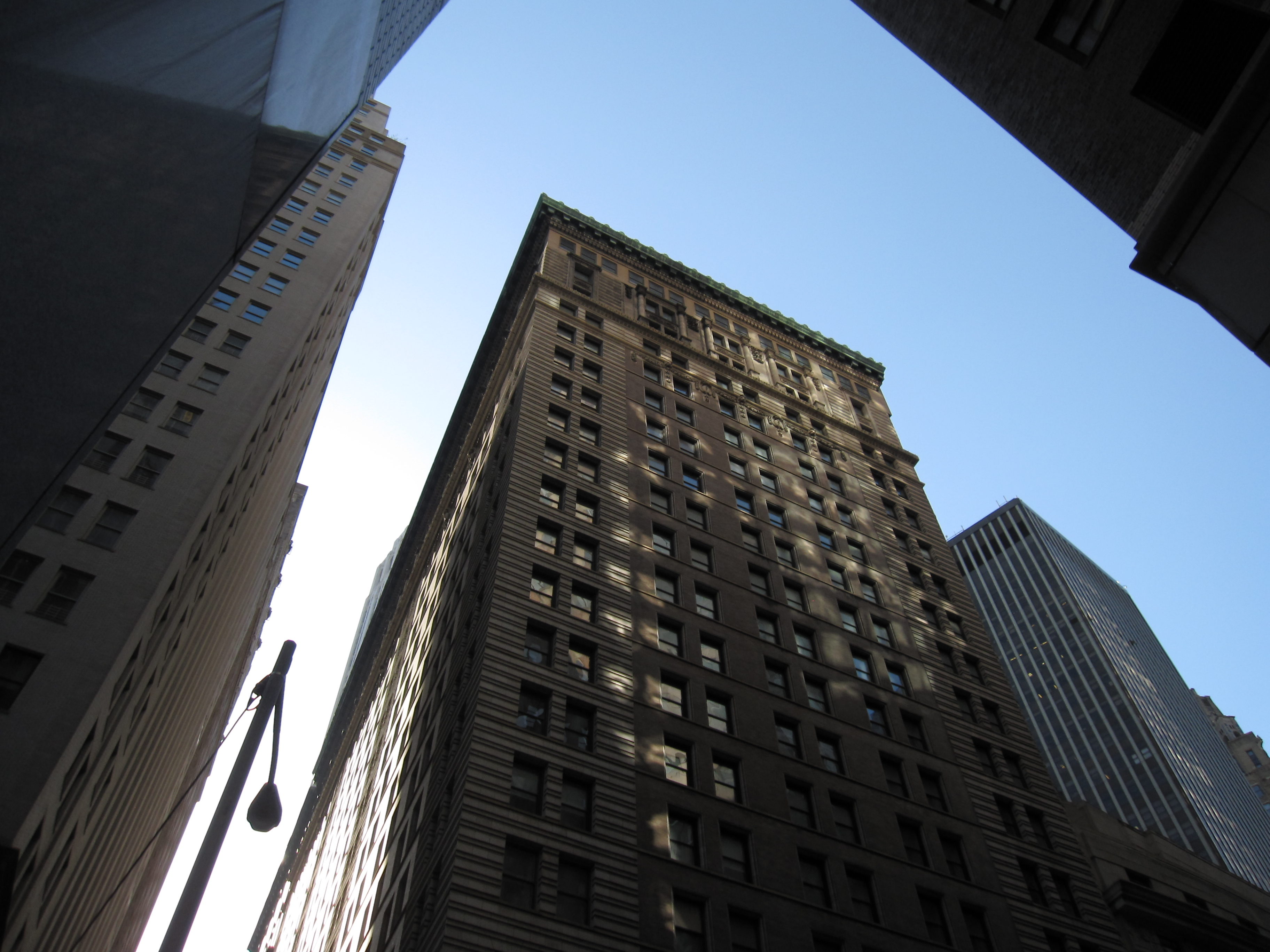 Broad Exchange Building